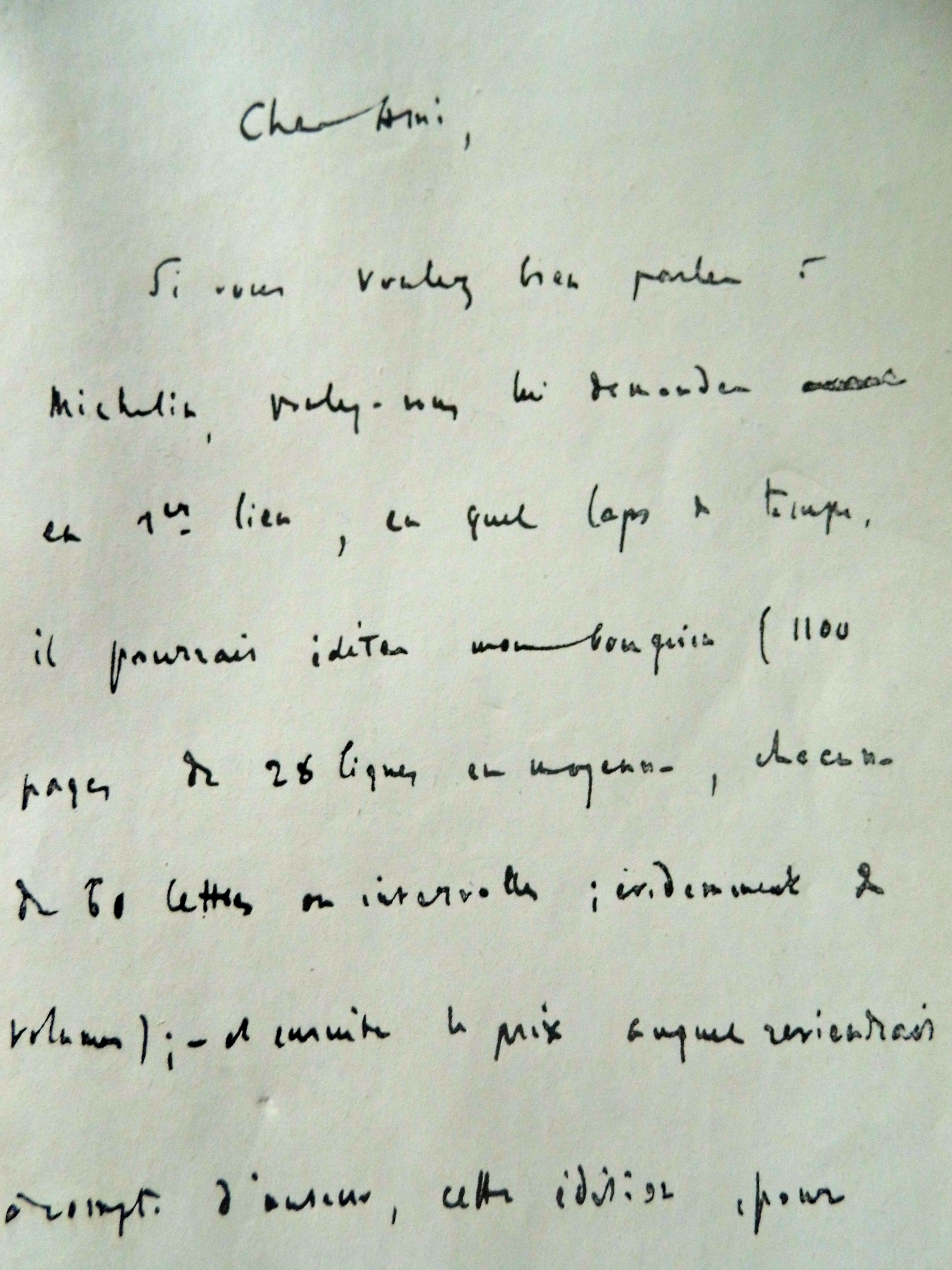 Lettre de J.Malègue du 14/2/1933 Malègues's letter februray 1933